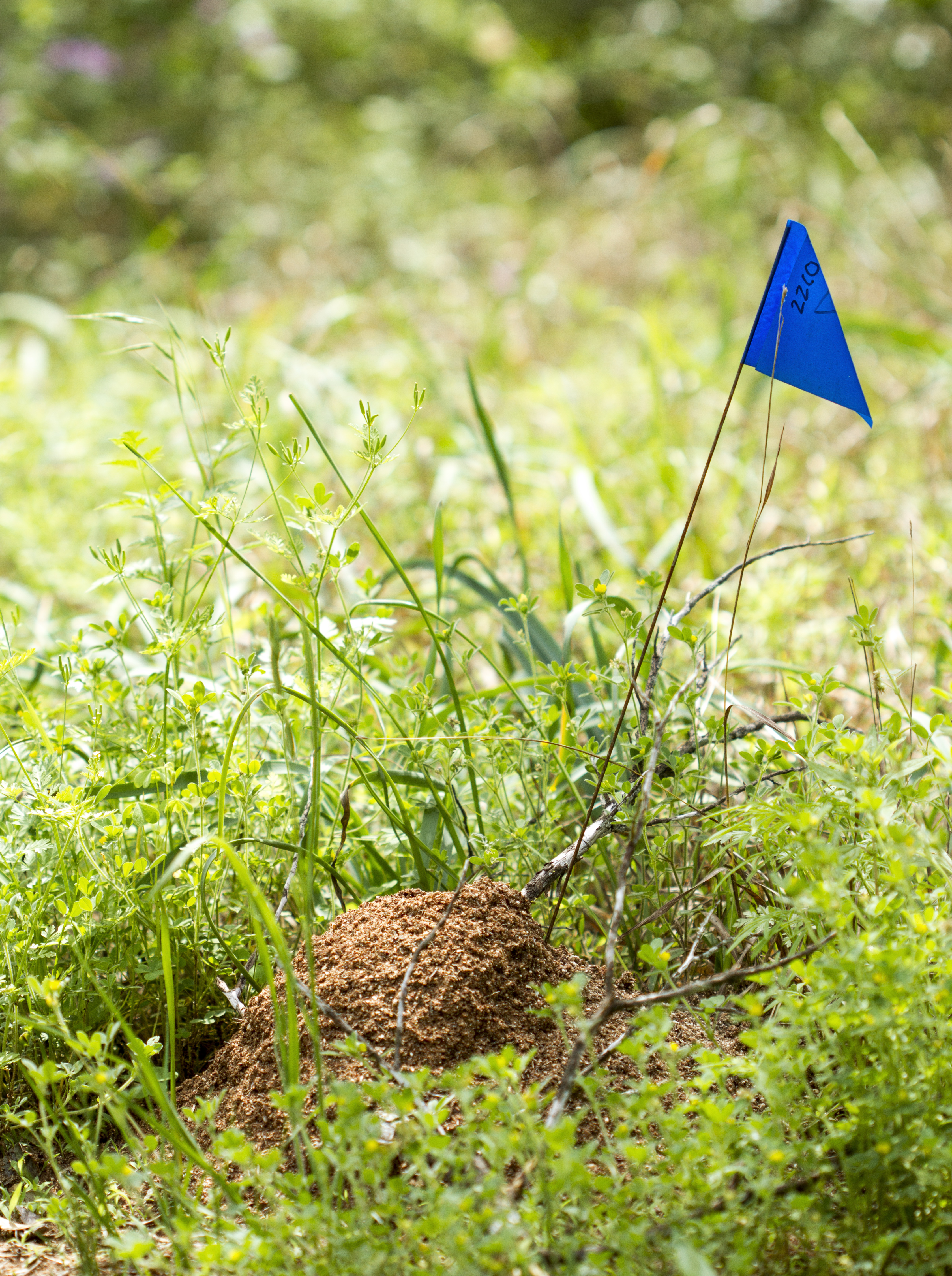 A Solenopsis invicta fire ant mound is marked for research at Brackenridge Field Laboratory, Austin, Texas, USA.